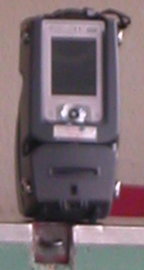 An Avantix Mobile machine. Photographed at Redhill station on 17th March 2007.